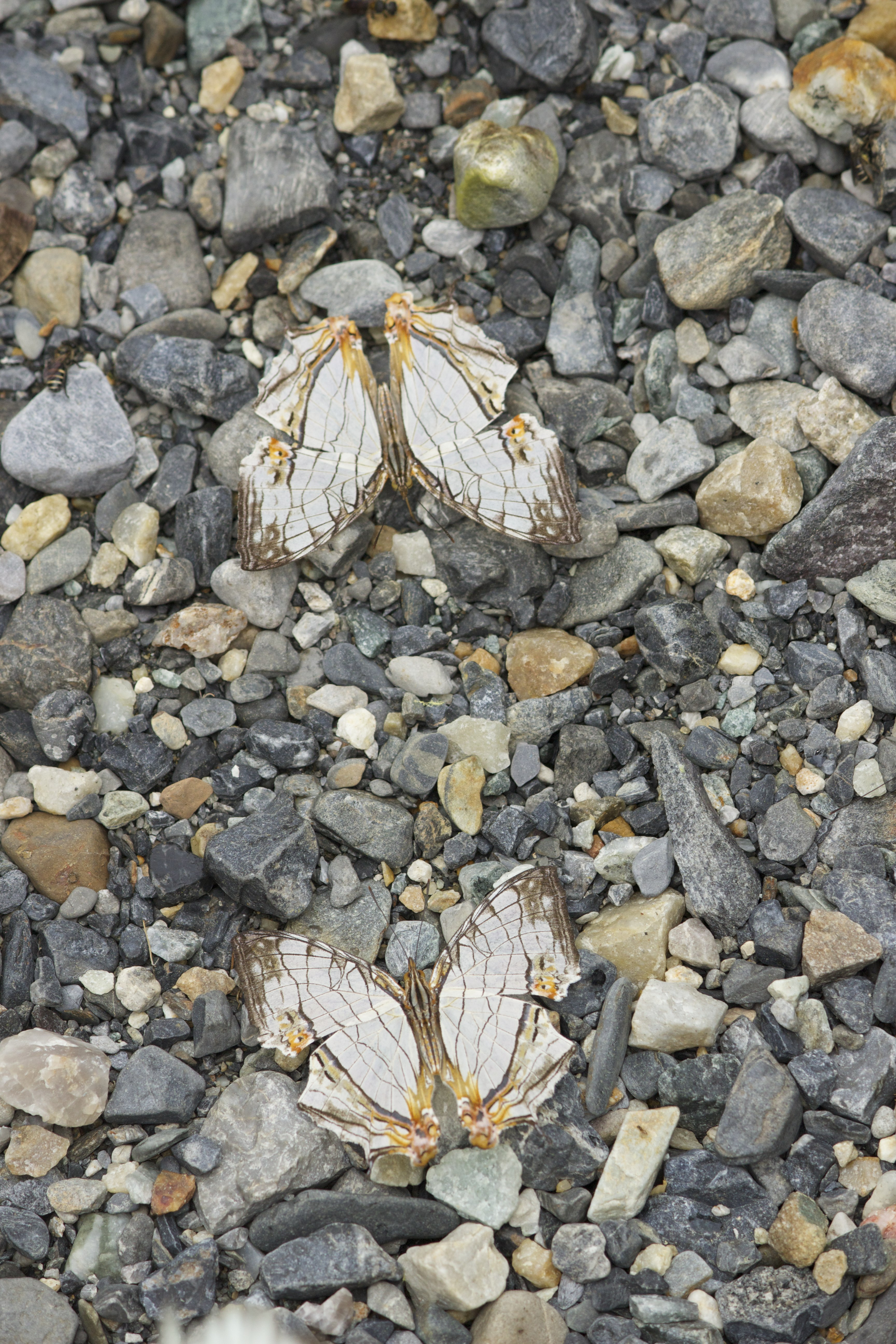 This image was taken in the project Wiki Loves Butterfly. Open wing position of Male Cyrestis thyodamas Doyère, 1840 – Map Butterfly